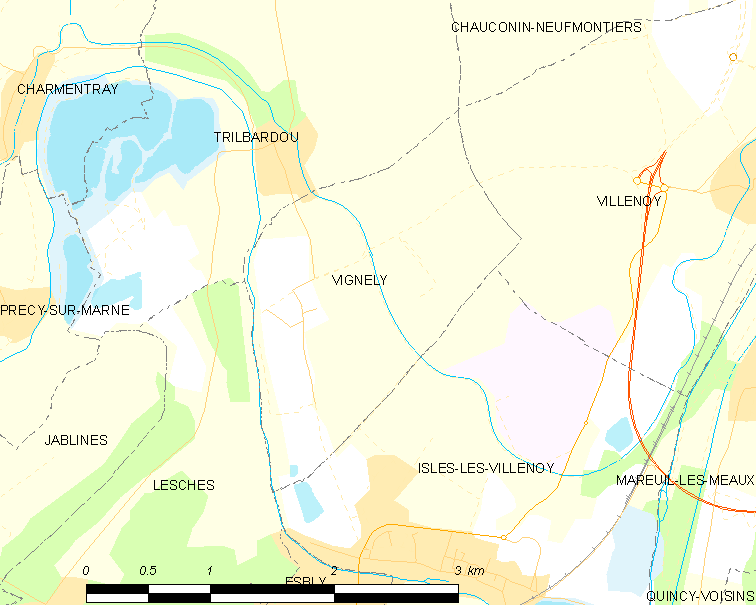 Map of French municipality Vignely